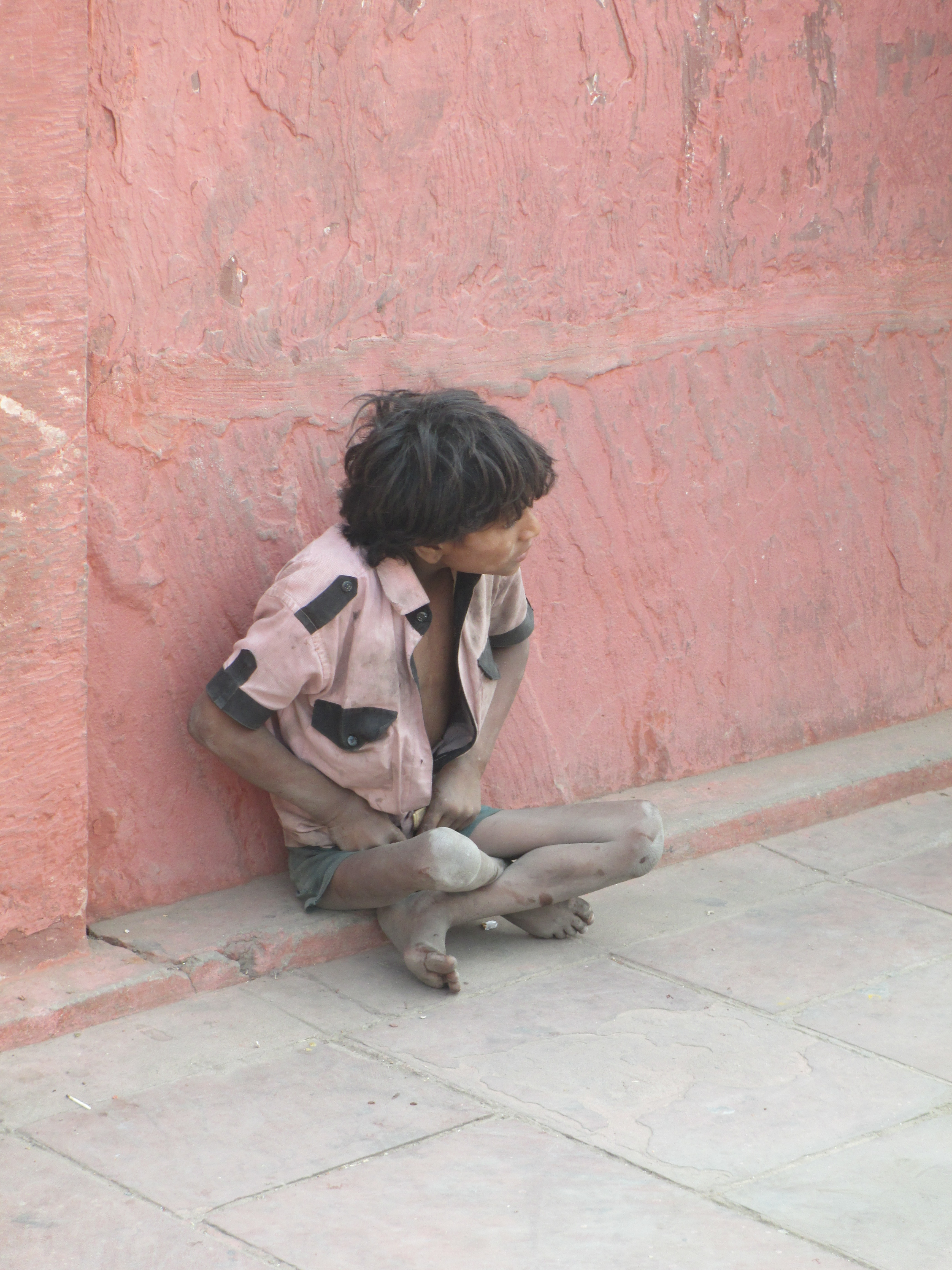 Starving children in India